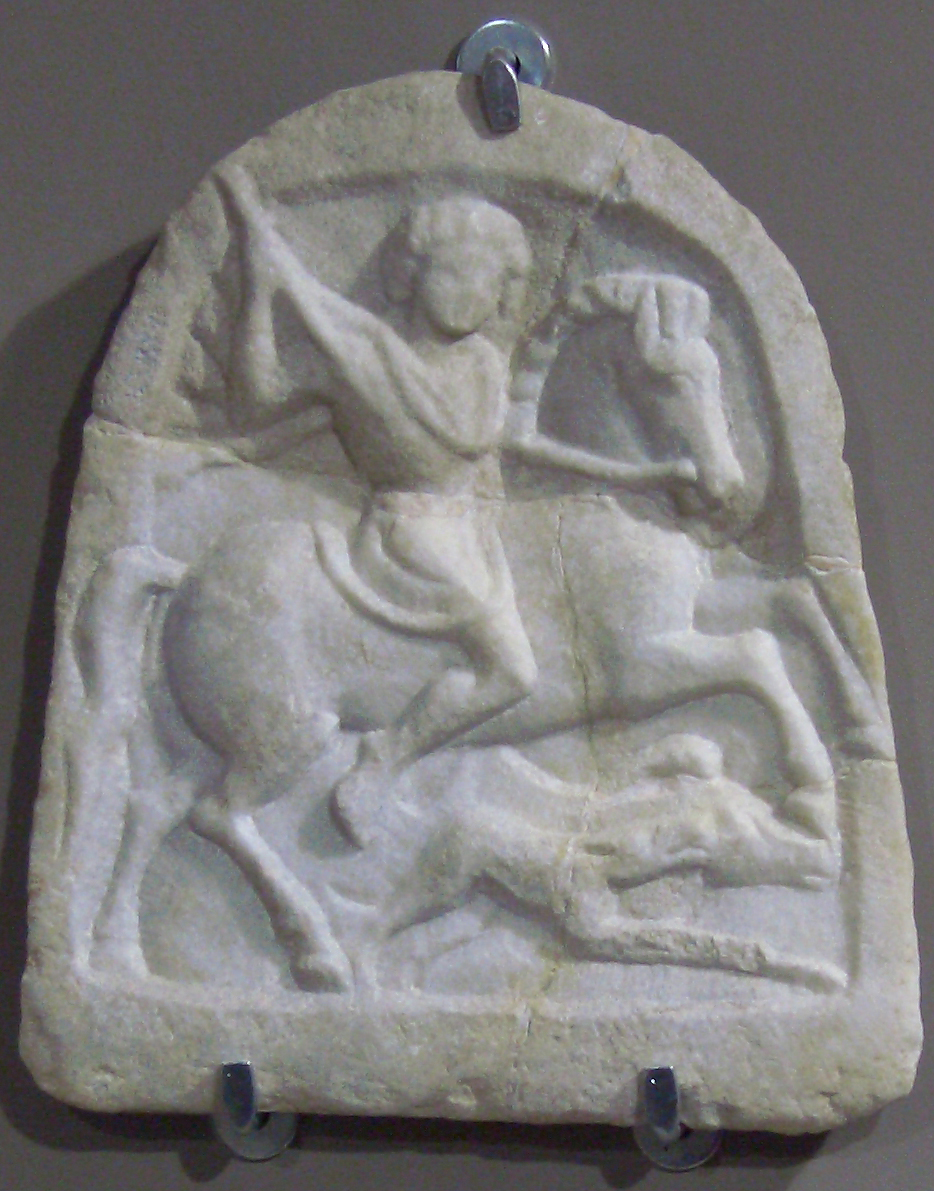 Marble votive tablet of a Thracian horseman, III-II century, in the collection of Stara Zagora's Regional history museum